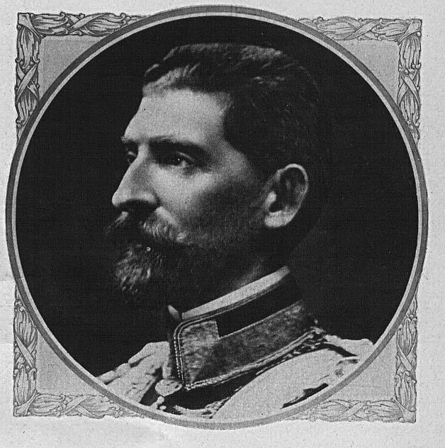 Portrait of Ferdinand of Romania (1865-1927)